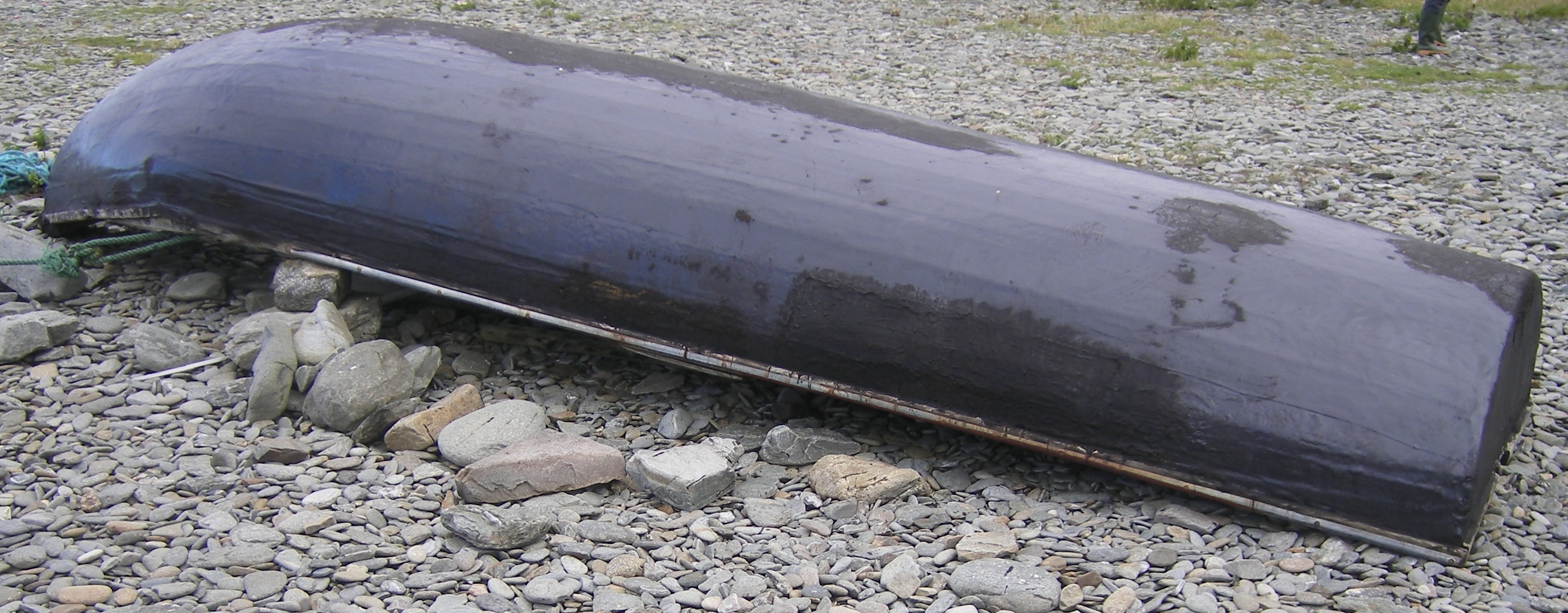 Inishbofin, Galway, Ireland. Currach. Photo d'Alvaro, 2006-08-06